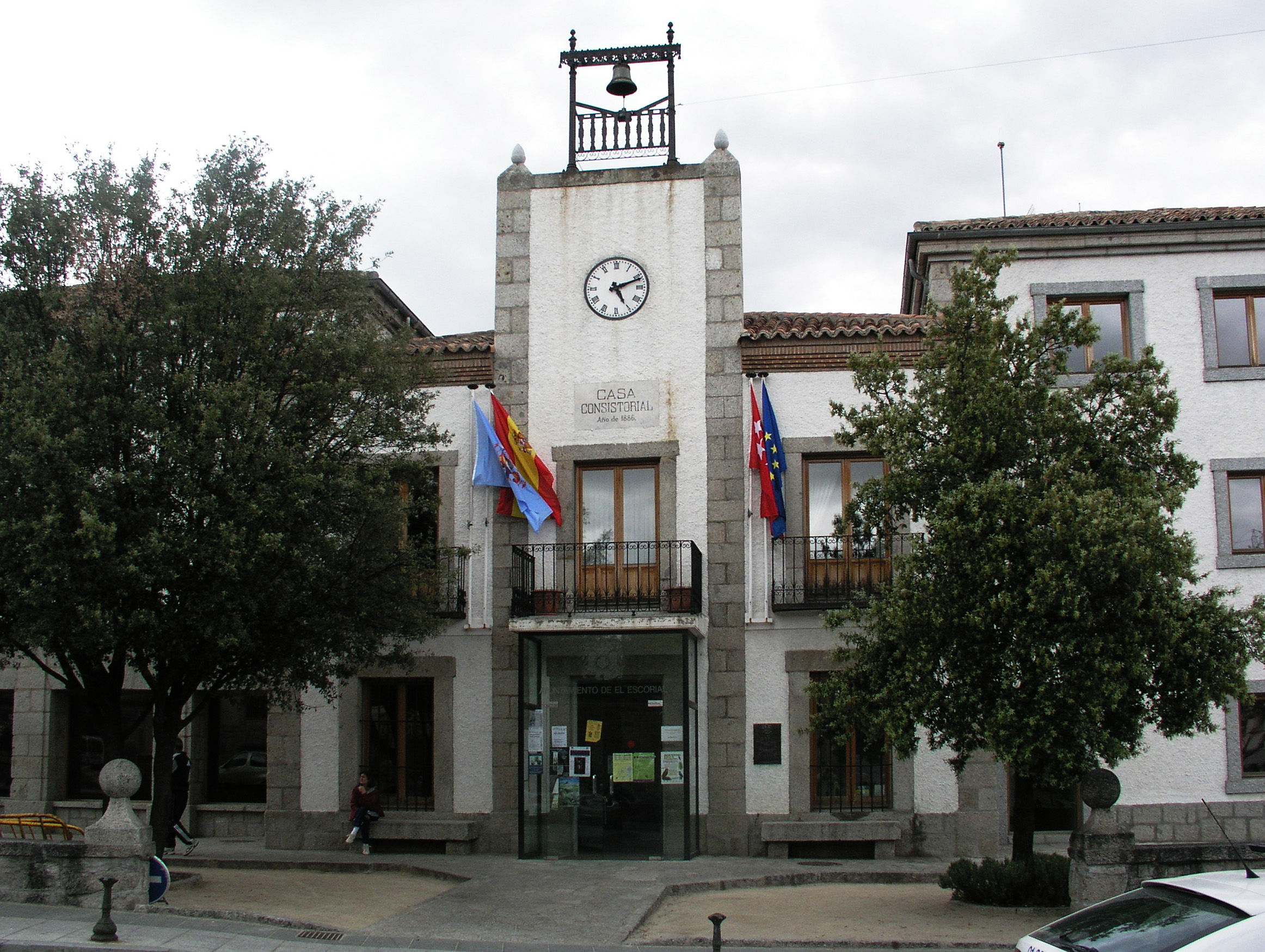 Casa Consistorial, Municipality of El Escorial, in Madrid, Spain.